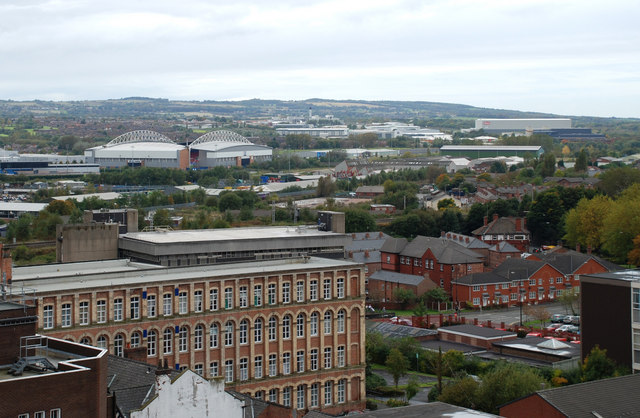 wigan view Taken from the top of Wigan parish church